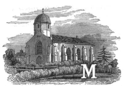 Initial "M" illustrated by Marfleet church, East Riding of Yorkshire, in about 1840